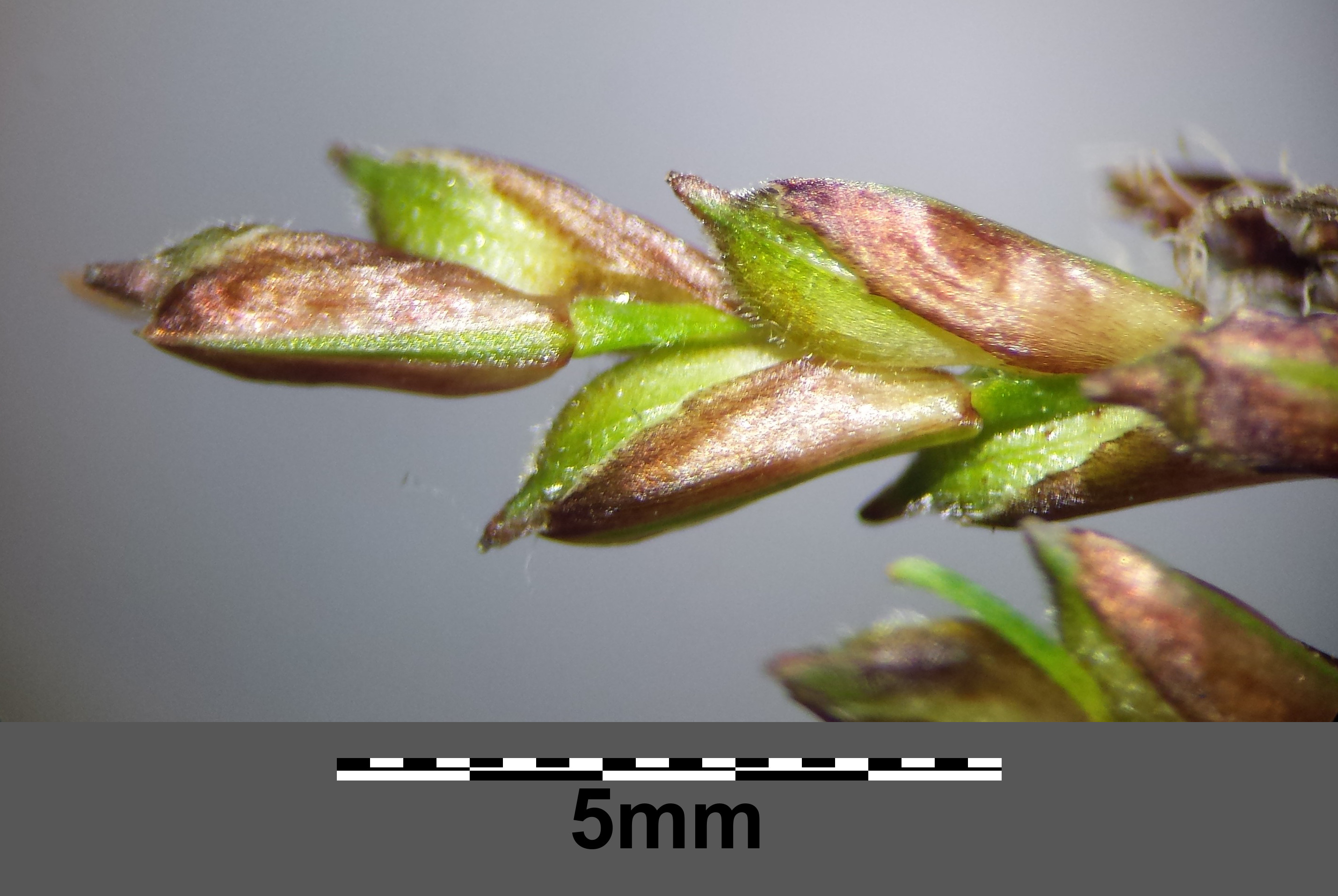 ♀ spike Taxonym: Carex digitata ss Fischer et al. EfÖLS 2008 ISBN 978-3-85474-187-9 Location: Rohrwald, district Korneuburg, Lower Austria - ca. 280 m a.s.l. Habitat: Carpinion betuli